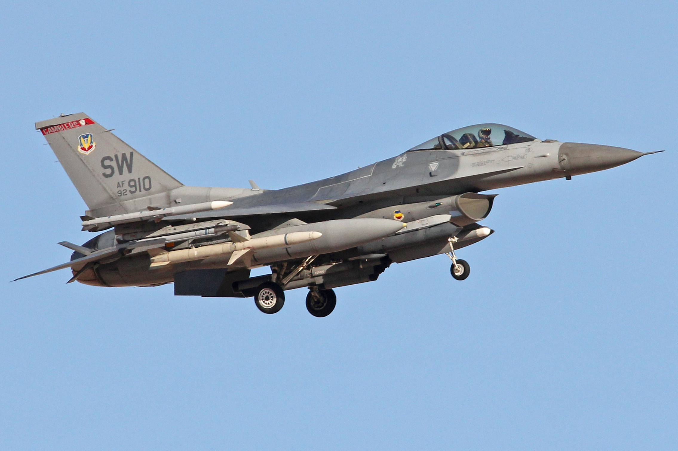 c/n CC-152. Full US military serial 92-3910. Operated by the 77th Fighter Sqn, part of the 20th Fighter Wing based at Shaw AFB, SC. Returning from a mission as part of Red Flag 16-2. Nellis AFB, NV, USA. 2nd March 2016